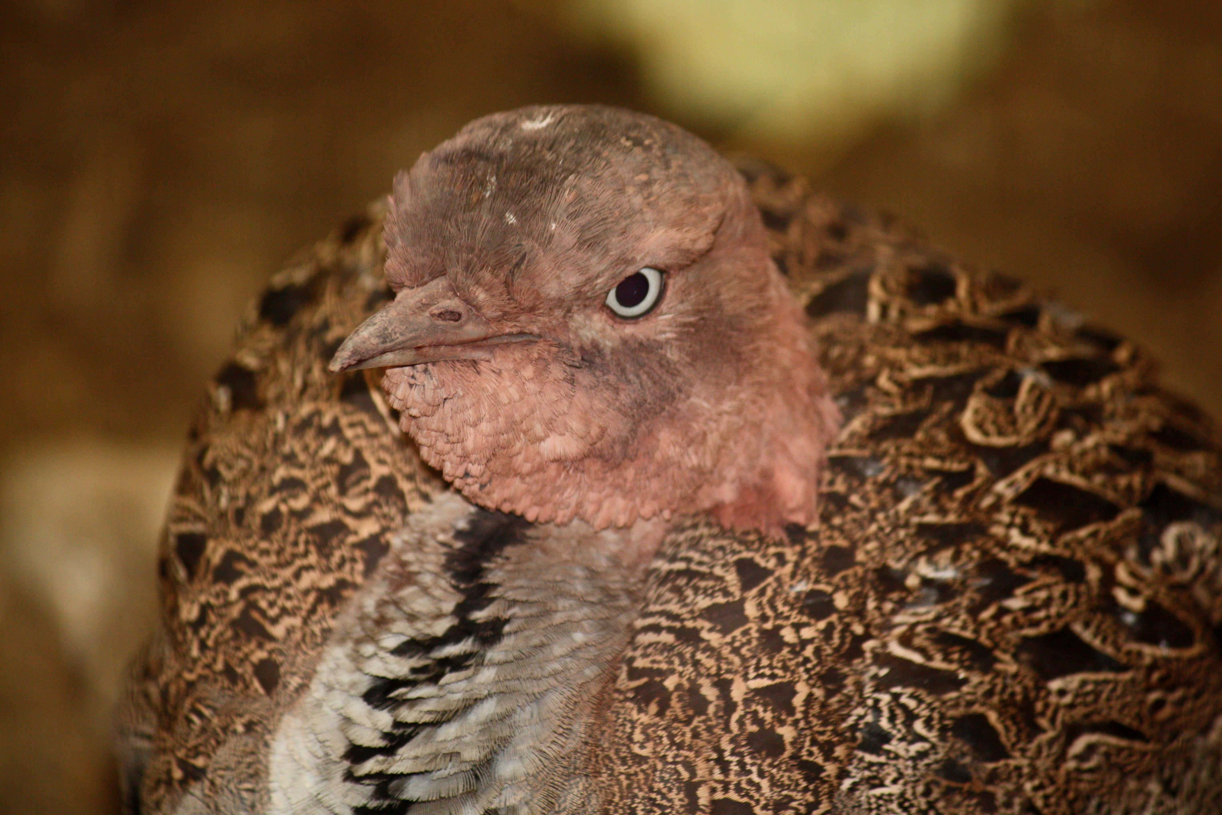 Buff Crested Bustard "Lophotis Gindiana" at the Cincinnati Zoo